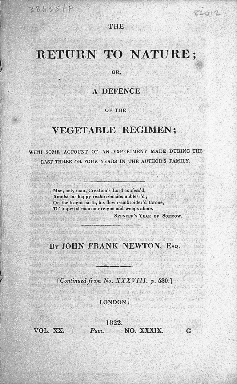 Title page Rare Books